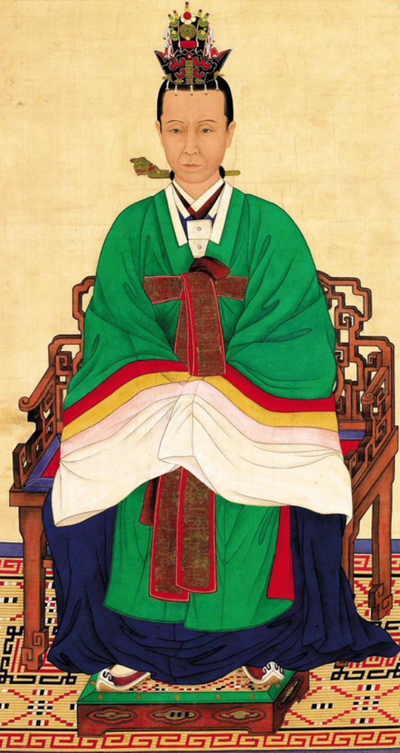 Queen Sinjeong. Regency : 1863-1873 (Monarch : King Gojong of Joseon) ; Grand Queen Dowager of Joseon : reign 1857 - 1890